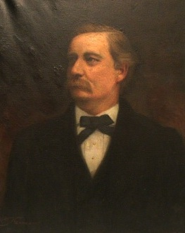 John P. Buchanan, governor of the U.S. state of Tennessee